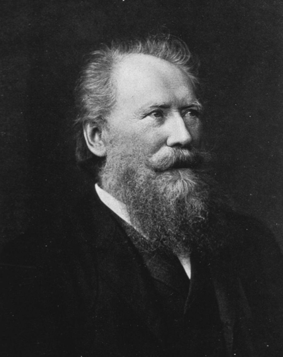 Karl Joseph Eberth